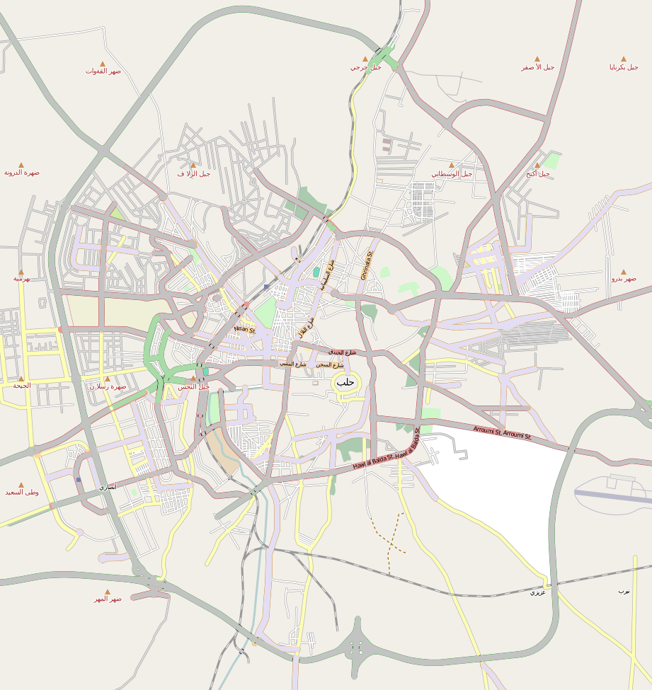 Map of Aleppo — in the Governorate of Aleppo, northern Syria. Geographic limits of the map: N: 36.2592° S: 36.1513° W: 37.0958° E: 37.2221°